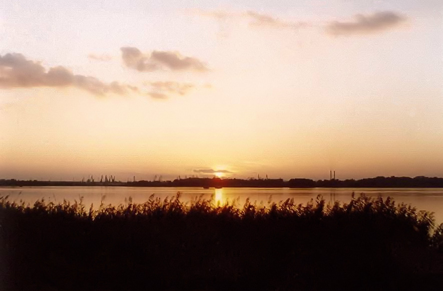 Sunset over Dąbskie Lake in Szczecin, Poland.